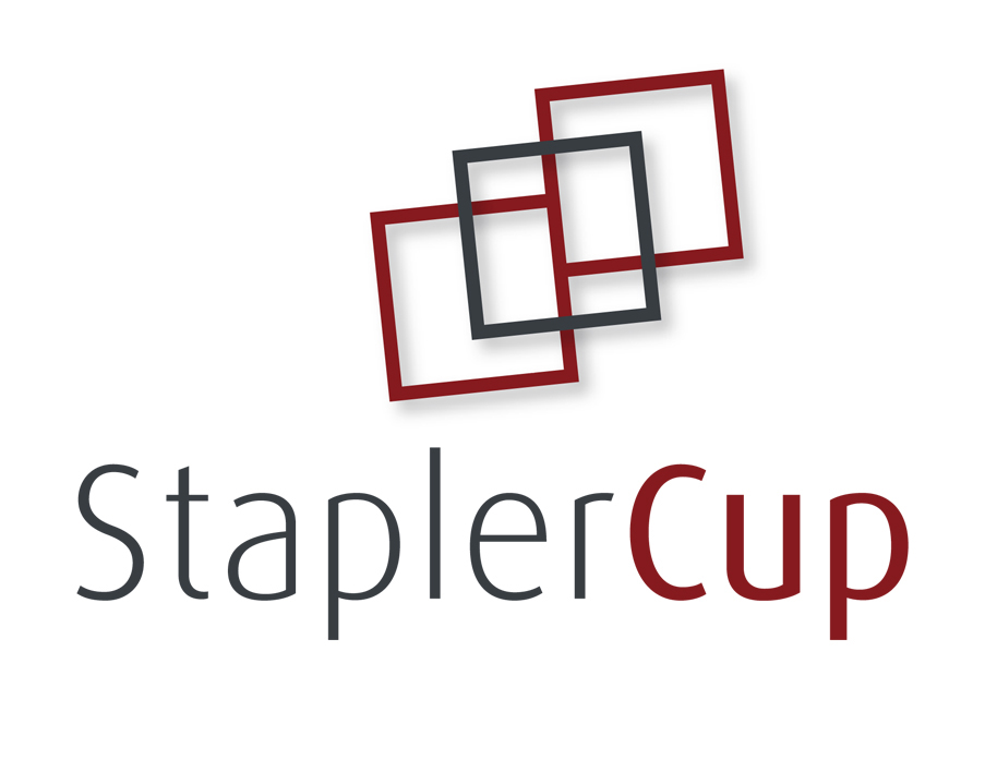 StaplerCup Logo